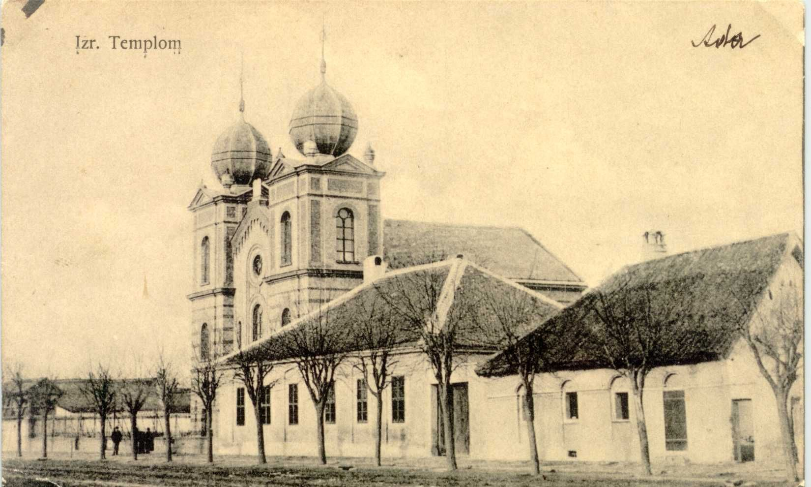 Ada on postcard (anno in Hungary, now in Serbia)